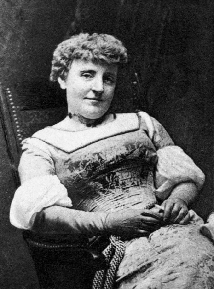 Frances Hodgson Burnett